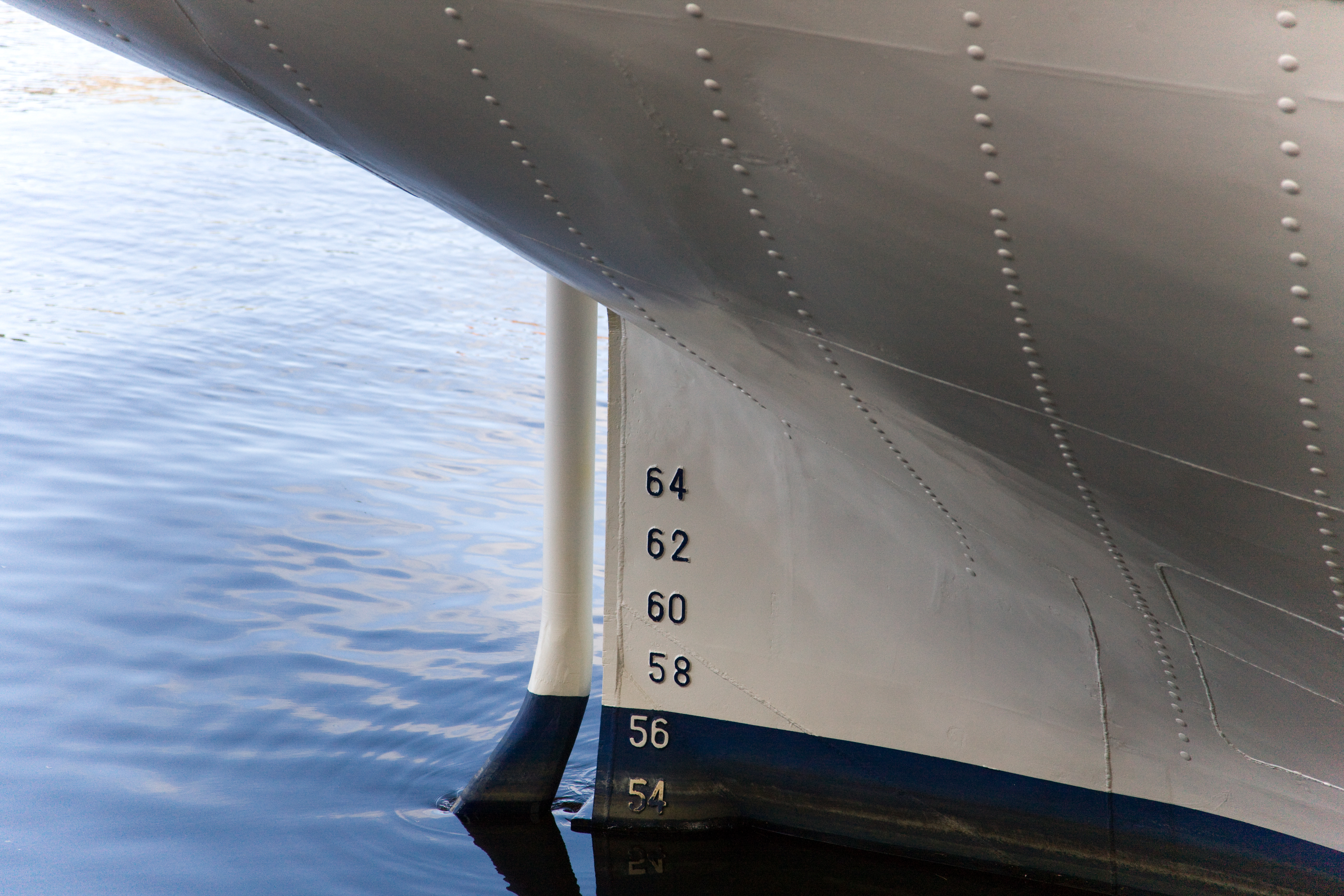 "The Gorch Fock is a tall ship of the German Navy (Deutsche Marine). She is the second ship of that name and a sister ship of the Gorch Fock built in 1933. Both ships are named in honor of the German writer Johann Kinau who wrote under the pseudonym "Gorch Fock" and died in the battle of Jutland/Skagerrak in 1916. The modern-day Gorch Fock was built in 1958 and has since then undertaken 146 cruises (as of October 2006), including one tour around the world in 1988. She is sometimes referred to (unofficially) as the Gorch Fock II to distinguish her from her older sister ship." (description from flickr)